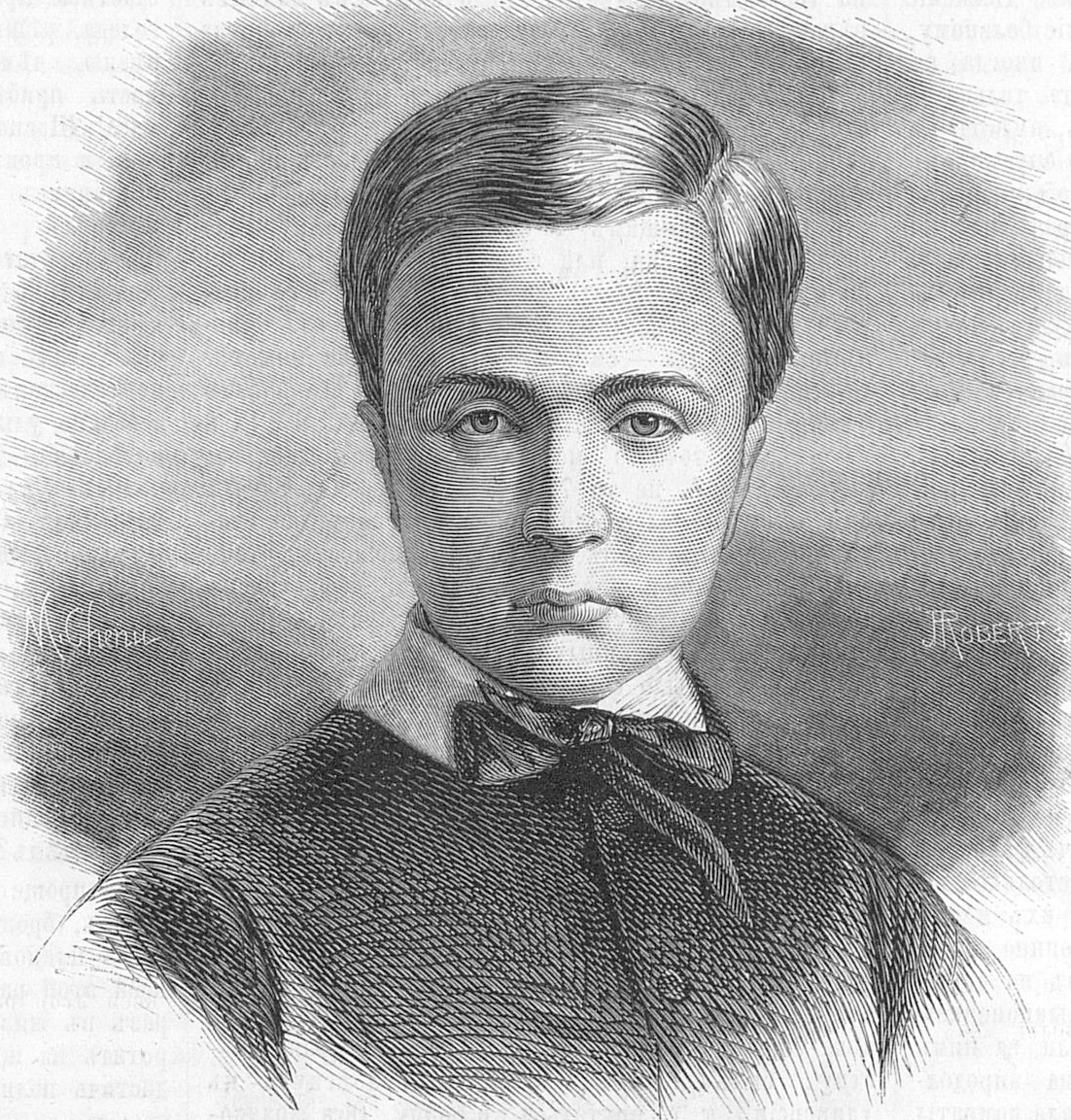 Belgian Crown Prince Leopold Ferdinand